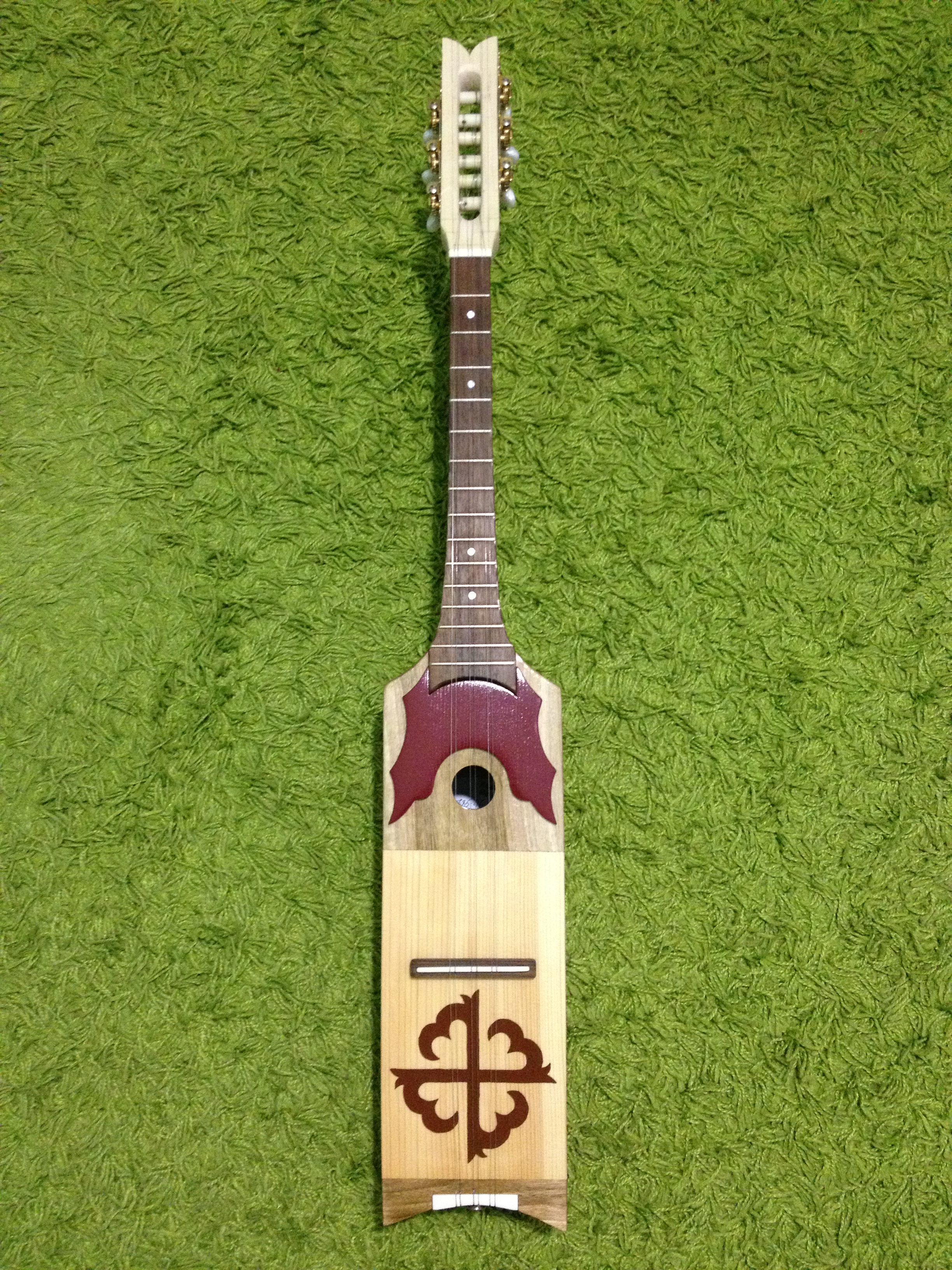 Vainakhish stringed instrument